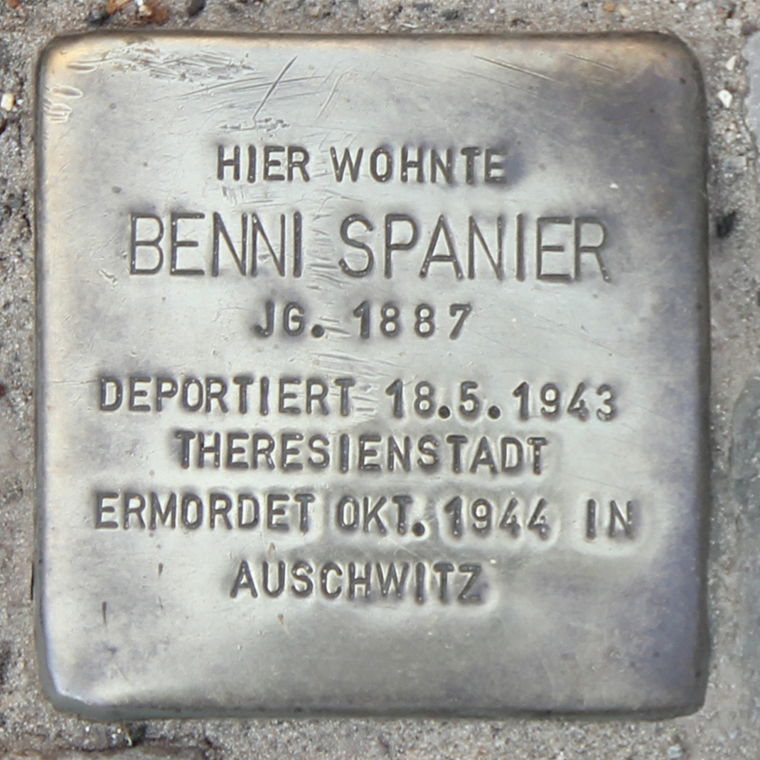 "stumbling block", Ben Spanier, Prager Straße 10, Berlin-Wilmersdorf, Germany Koordinate:52°29′39″N 13°20′1″E / 52.49417°N 13.33361°E